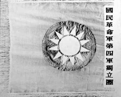 NRA New Fourth Army Flag.叶挺独立团于1925年11月正式成立，是周恩来抽调黄埔军校毕业生中的革命青年、在国民革命军第四军中筹建的以共产党员为主要骨干的部队，叶挺被广东区委推荐担任该团团长。叶挺独立团名义上隶属第四军，实际上由中共广东区委具体领导，其干部的任免、调动和人员的补充全由共产党独立负责。